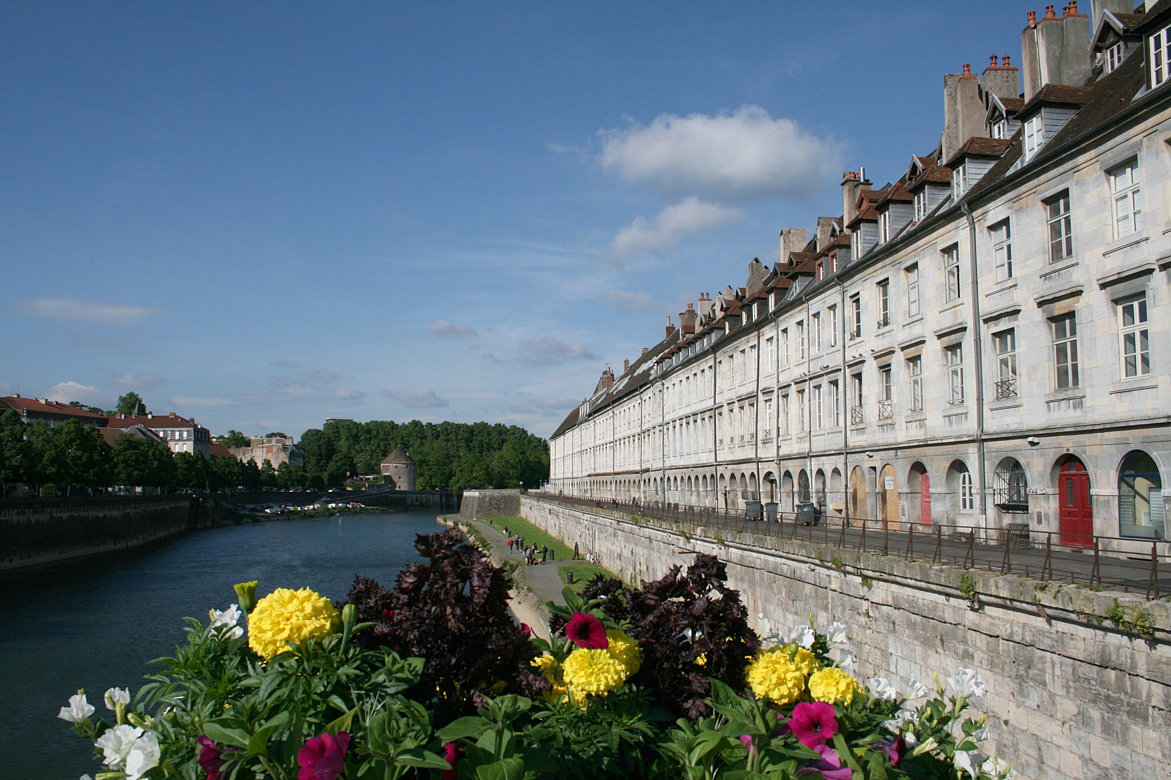 Besançon (Doubs - France), Doubs, the Tour de la Pelote and the Quai Vauban with the former granaries of the city seen from the Pont Battant.